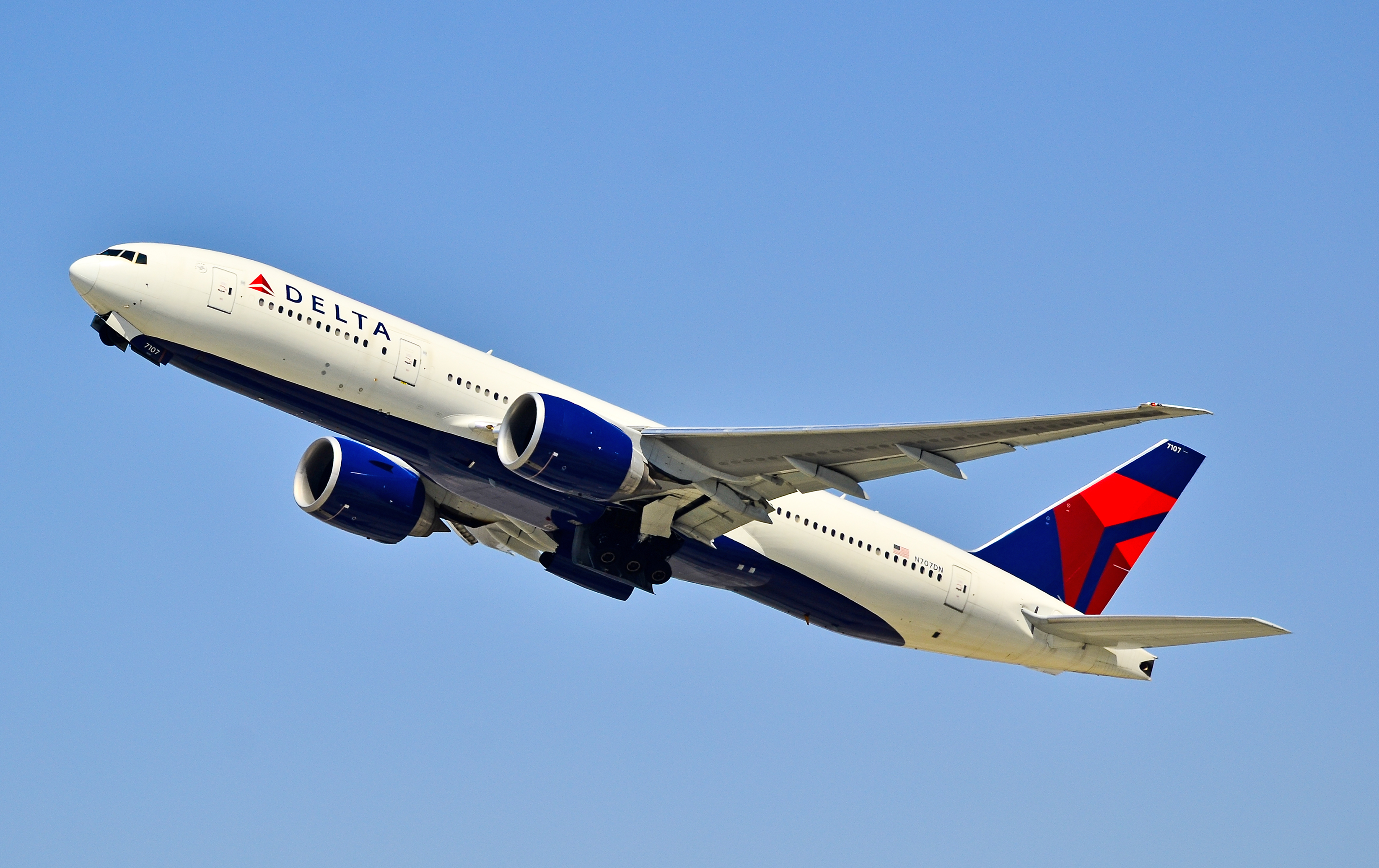 Los Angeles International Airport (IATA: LAX, ICAO: KLAX, FAA LID: LAX) TDelCoro April 9, 2012 (Photo 5)